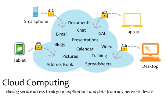 Cloud Computing visual diagram